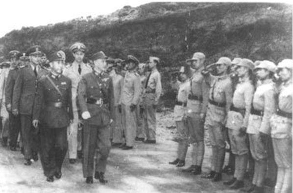 Chiang Kai-shek and Dai Li